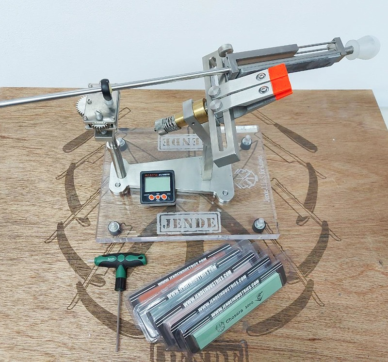 The Jende Industries Guided Sharpener, or JIGS for Knives, includes the JIGS sharpening system, an acrylic base, an angle cube, and five 1"x6" standard size stones - the Naniwa 220 GC and Naniwa 1K Chocolate Bar economical level stones for getting over the learning curve, and the premium level Naniwa Chosera 600, 1K and 3K stones for when the training wheels come off.